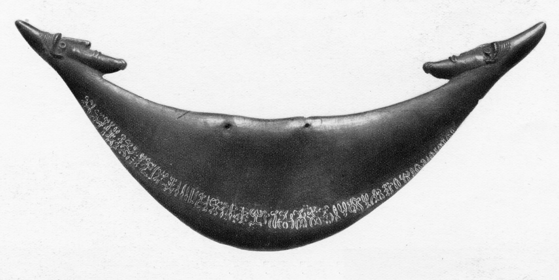 Inscribed side of rongorongo item L, reimiro 2, one of 26 rongorongo tablets that may be authentic.